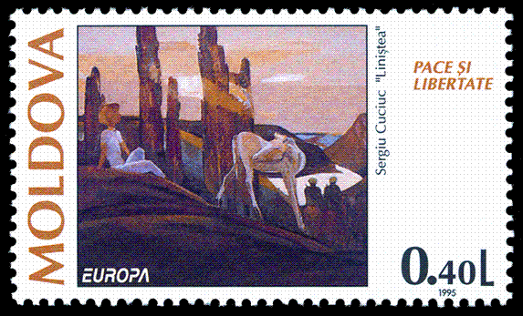 Peace (1984). S. Cuciuc